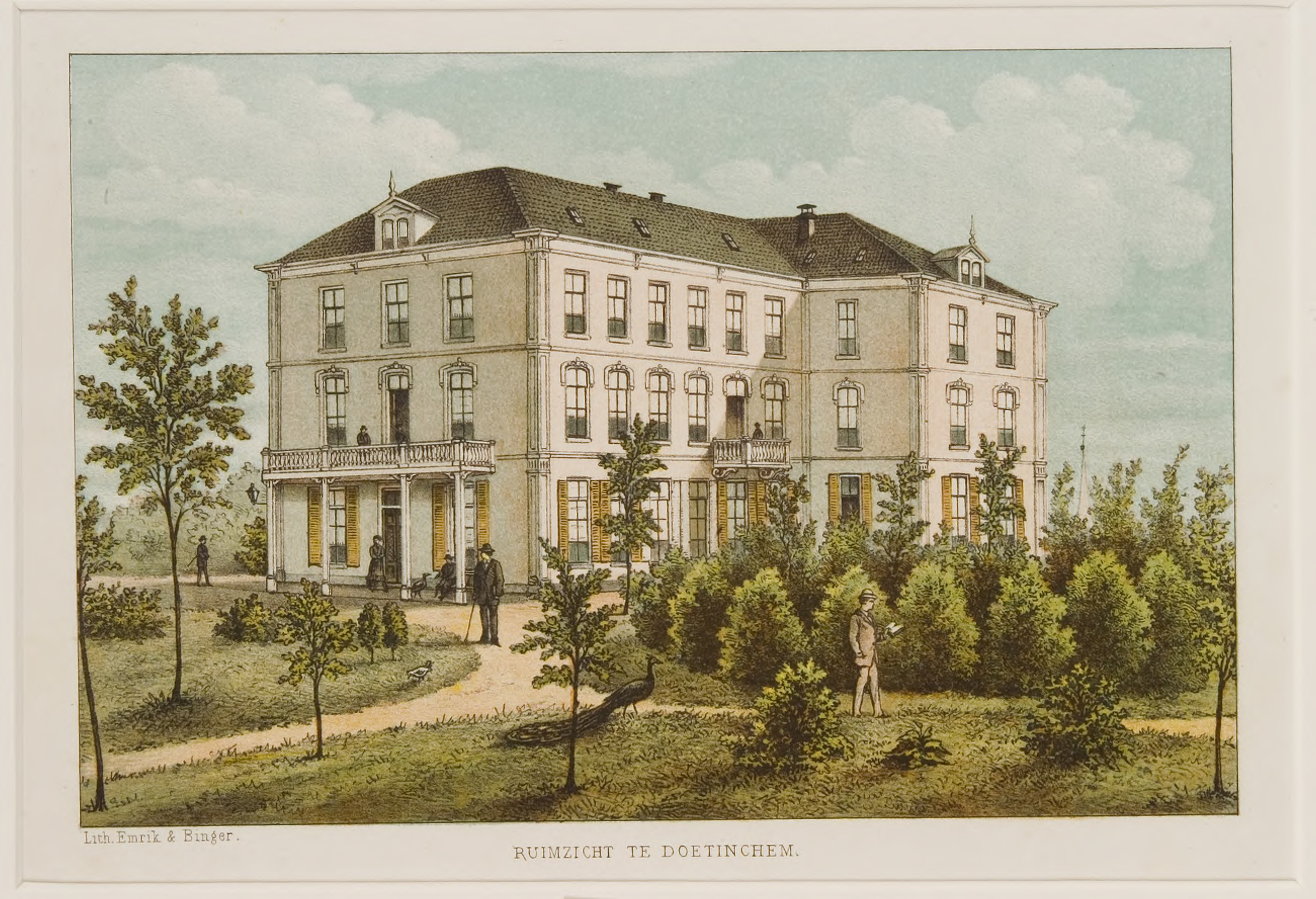 Estate with park, purchased in 1868 by J. van Dijk and built for the Christian Philanthropic Institute, located along the road towards the Kruisberg. In 1885 the building was expanded upon with two side wings.